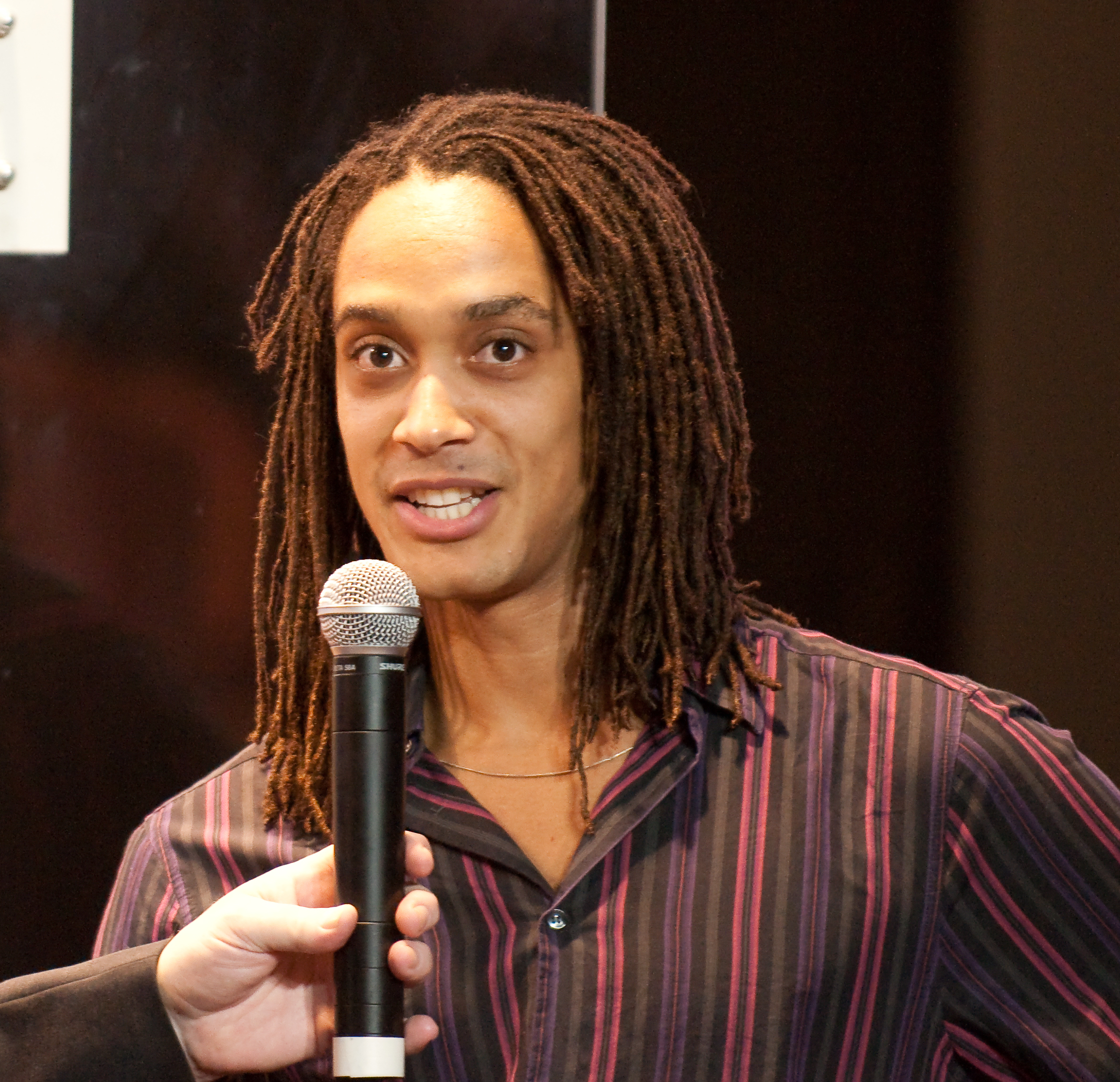 Semi Finals James Willstrop vs. Amr Shabana